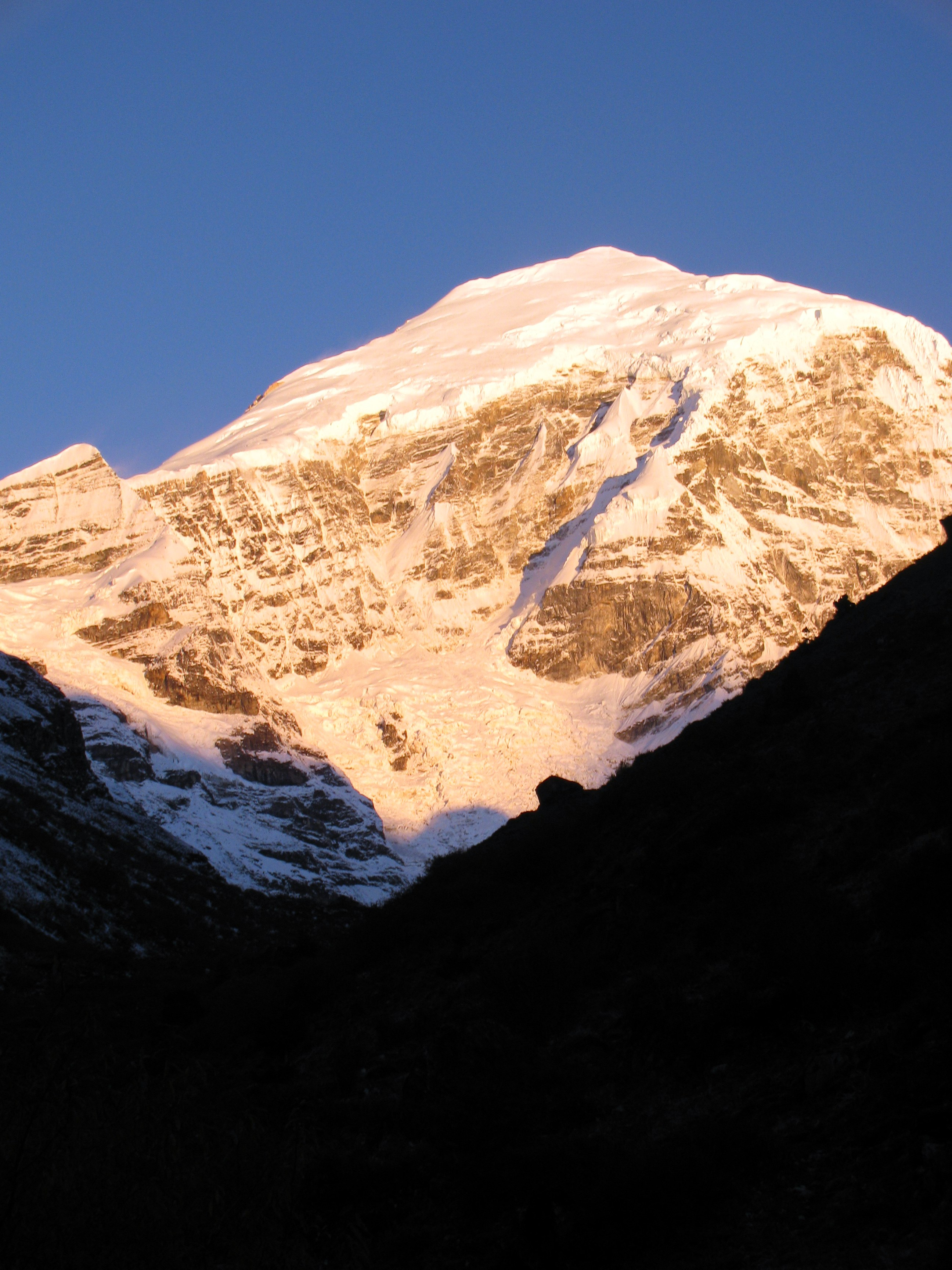 Mount Jomolhari (Chomolhari) at dawn from Jomolhari base camp, Bhutan